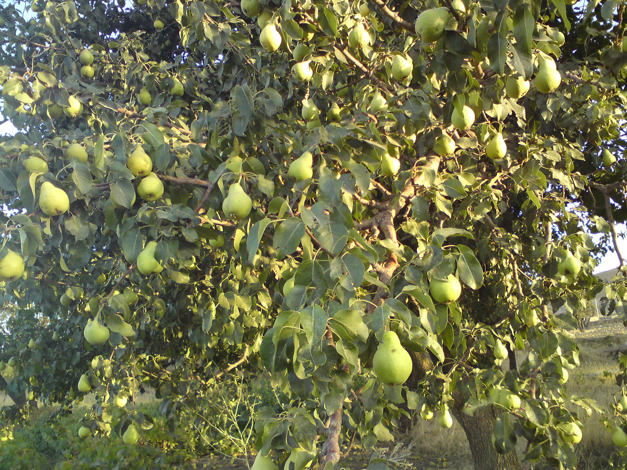 Pear tree in Hamedan Iran